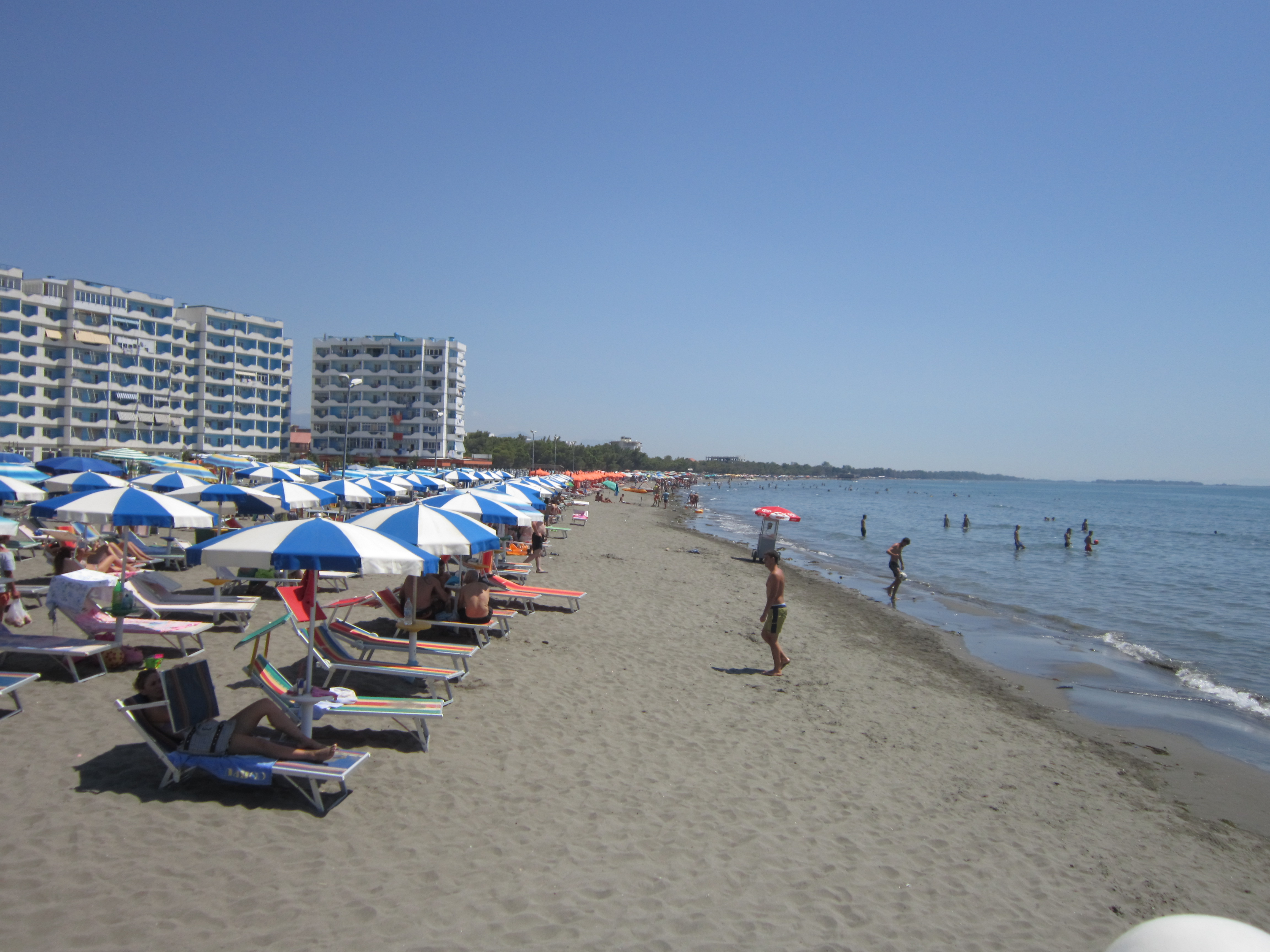 Shengjin's beach facing south